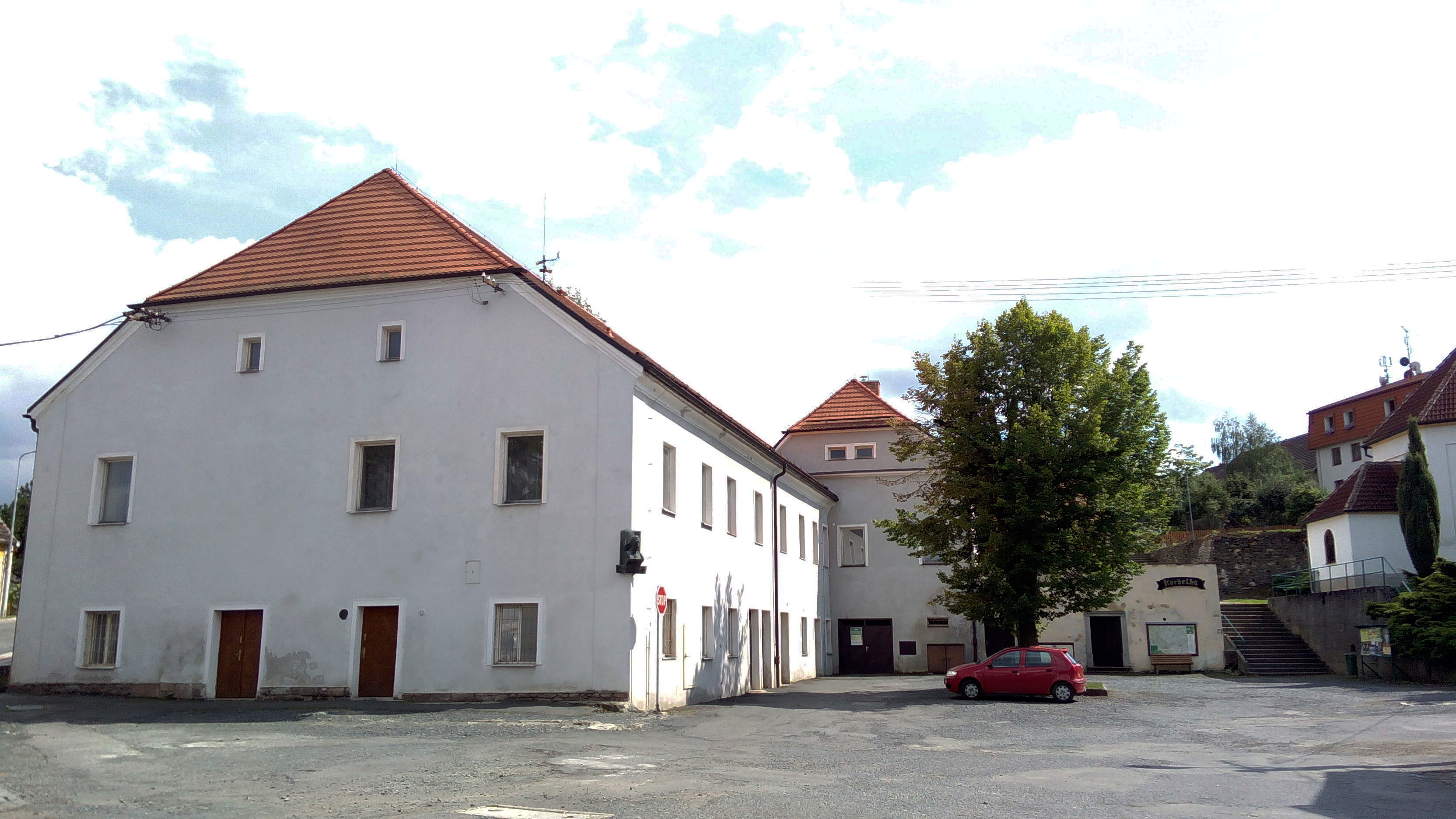 Town hall in Kout na Šumavě, Plzeň Region, Czech Republic.